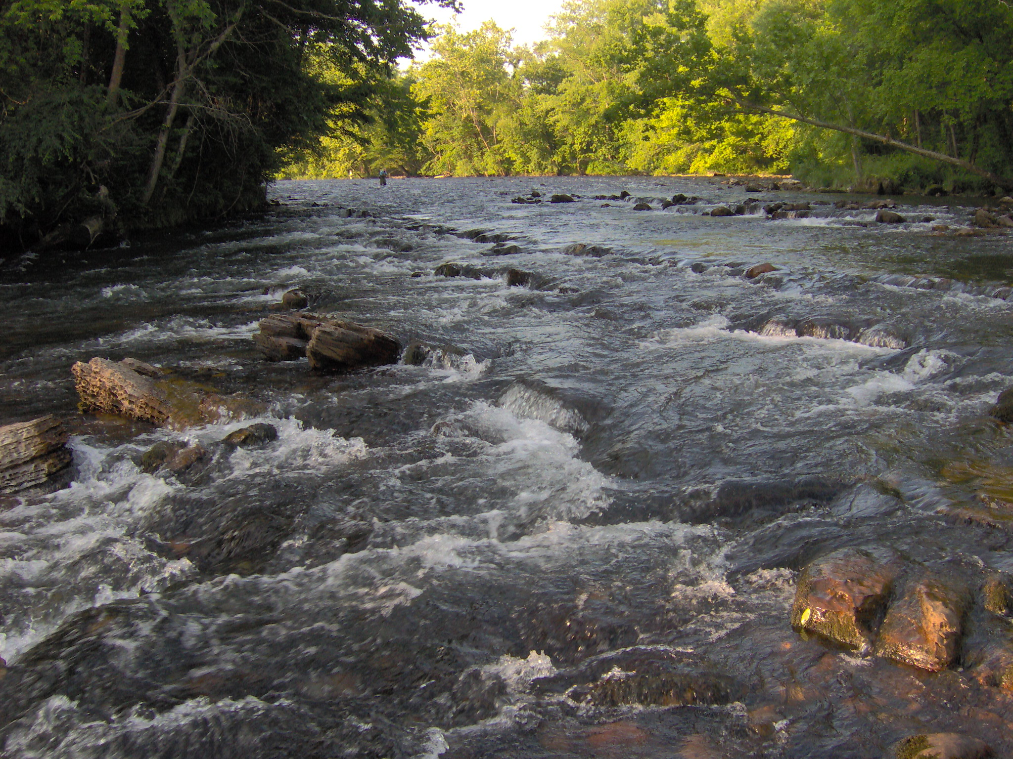 Sycamore Shoals on the Watauga River in Elizabethton, Tennessee, USA. This stretch of the river is located along the Mountain River Trail (maintained by Sycamore Shoals State Historic Site). The photo was taken from the middle of the river, which can be fairly easily rock-hopped and waded across. The heavily-forested land on the left is the little island that appears on topographical maps opposite the state park lands.